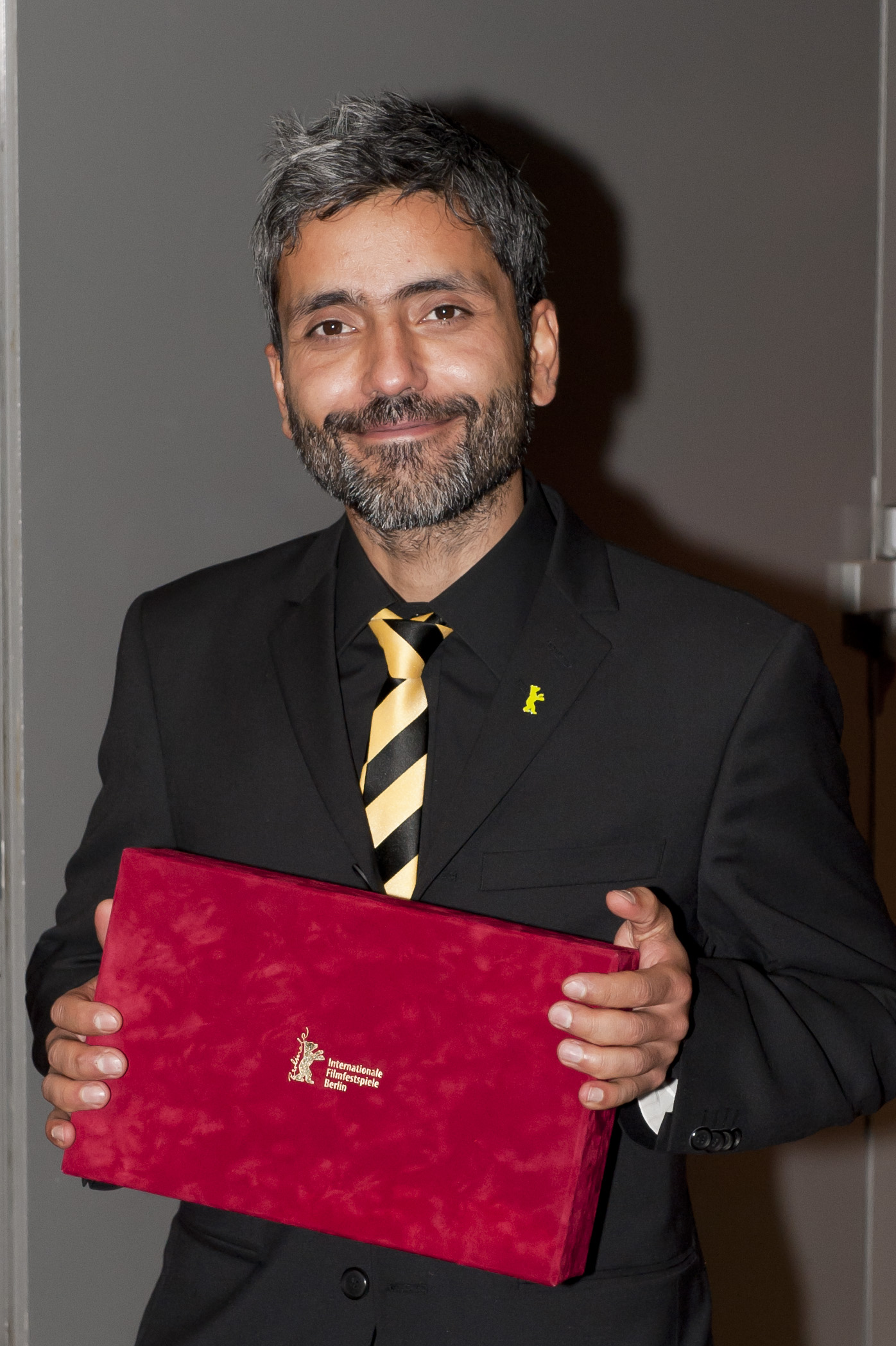 Swedish director Babak Najafi, Best First Feature Award for "SEBBE"